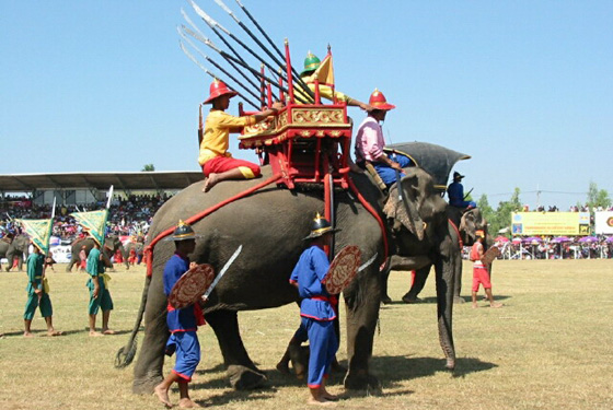 Geoff Pullan (freebeerforyorky) Photograph is my own work Surin Elephant Round Up